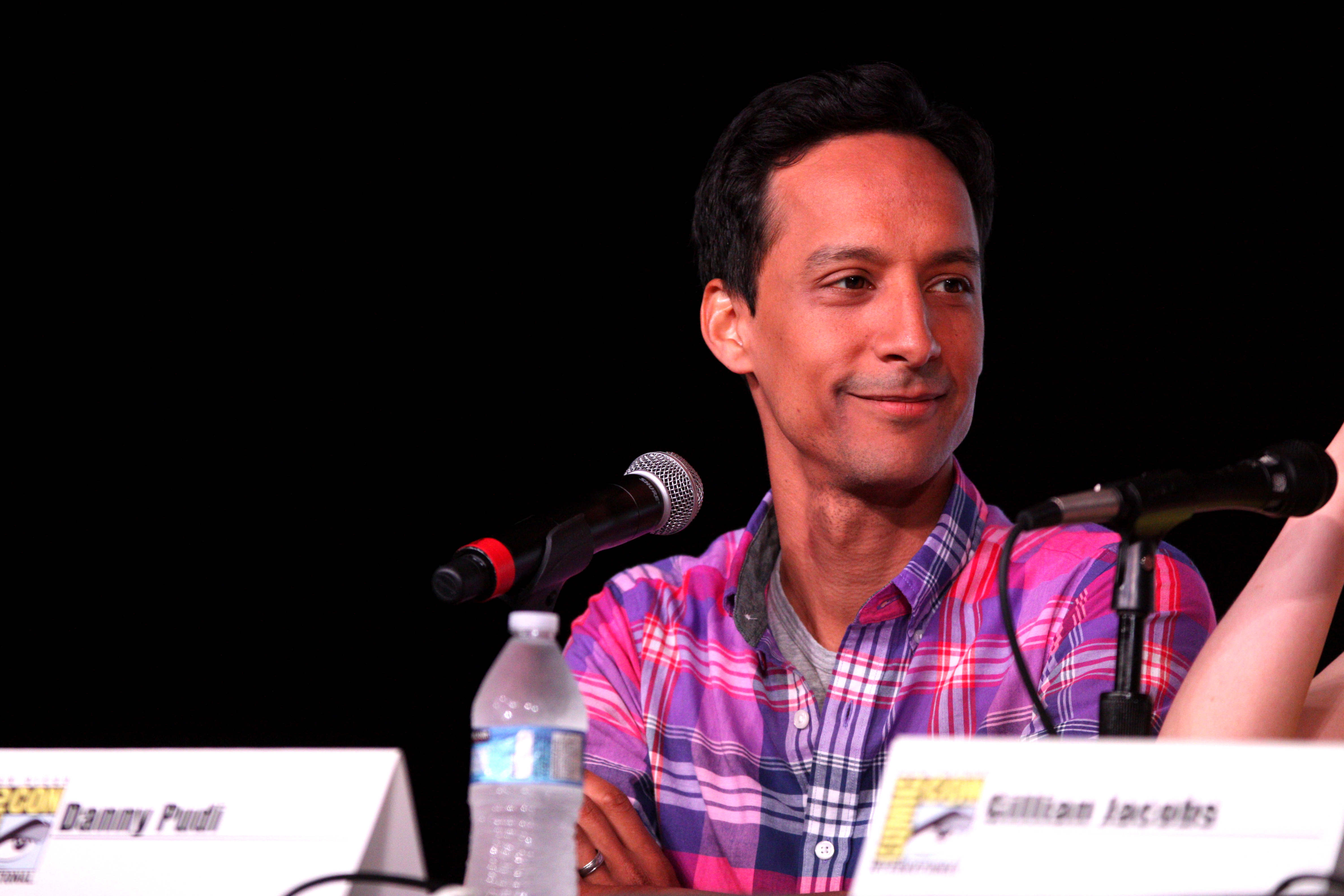 Danny Pudi speaking at the 2012 San Diego Comic-Con International in San Diego, California.